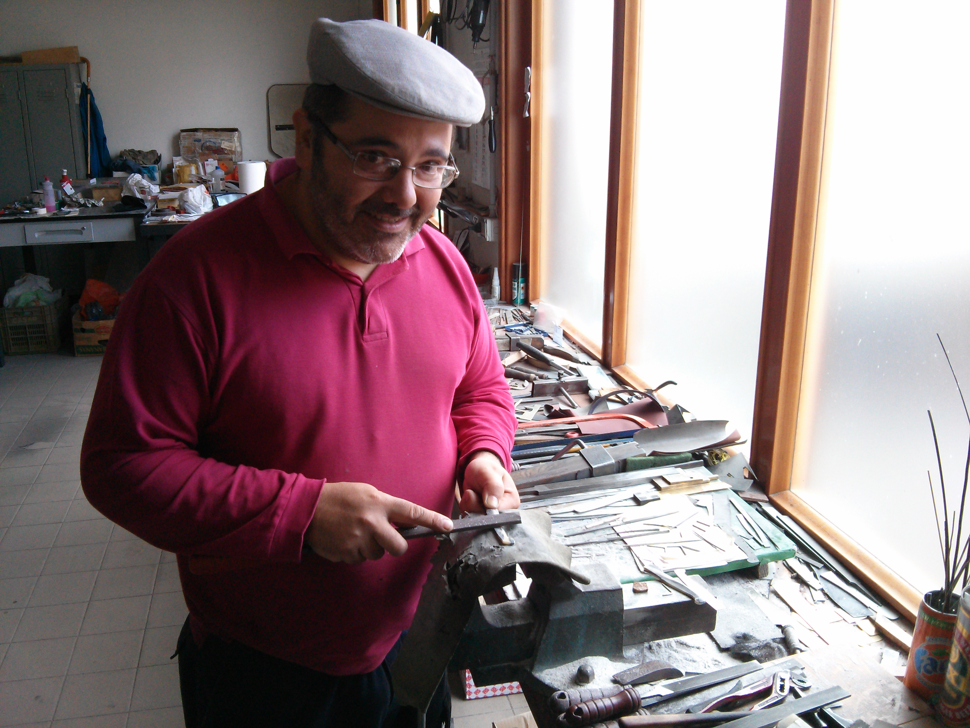 Gianmario Fogarizzu working on a handmade knife at the Fogarizzu shop in Pattada